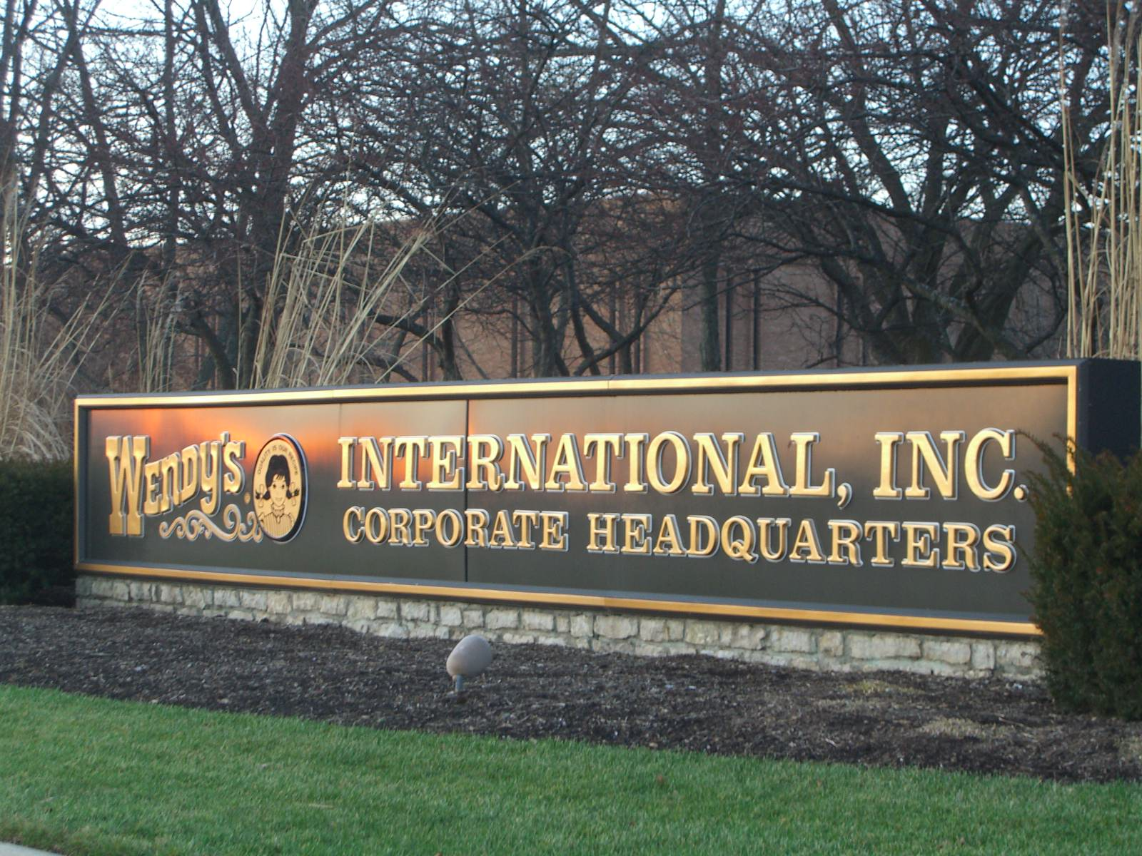 Photo by Nick Juhasz.